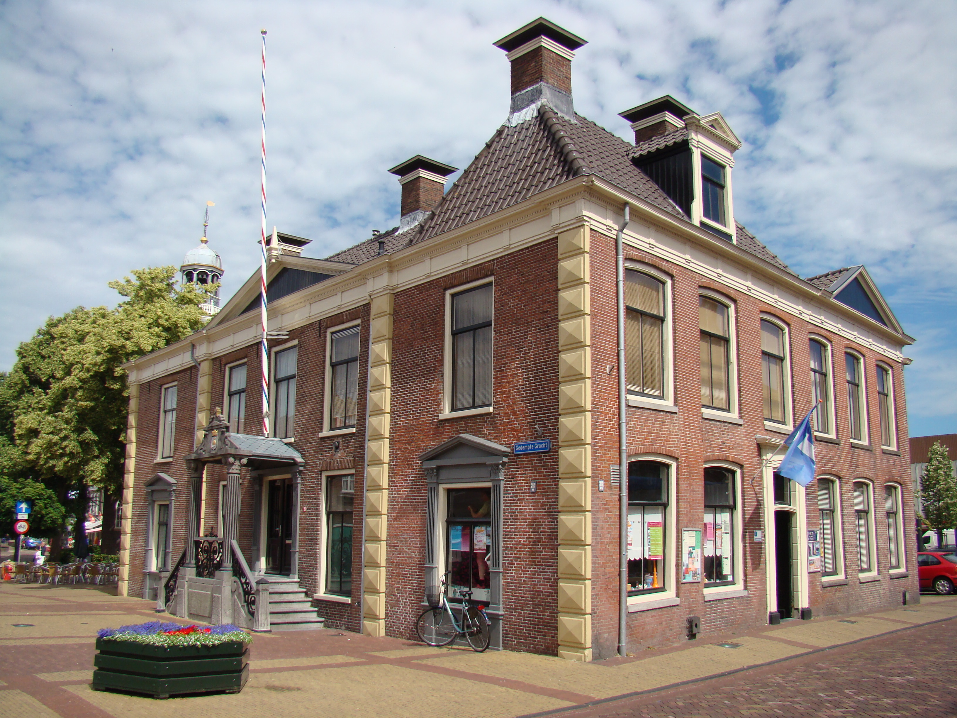 Town hall of Lemmer, Netherlands